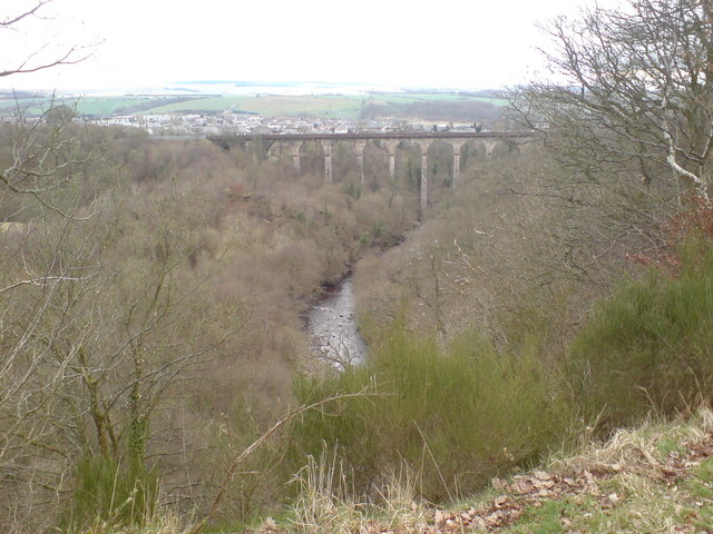 The railway viaduct crossing the Lugar Water